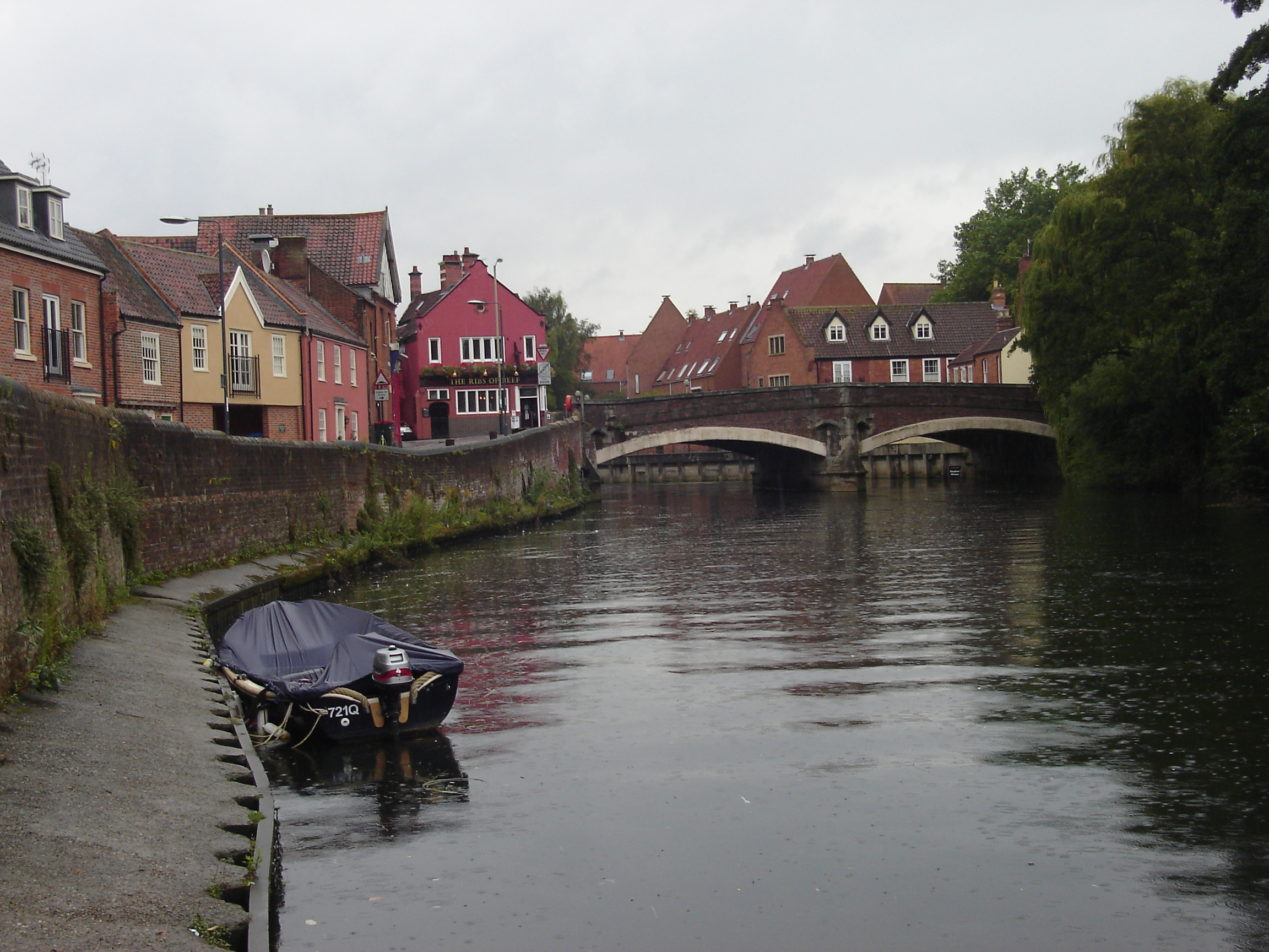 Loooking upstream at Fye Bridge, Norwich. The bridge spans the River Wensum